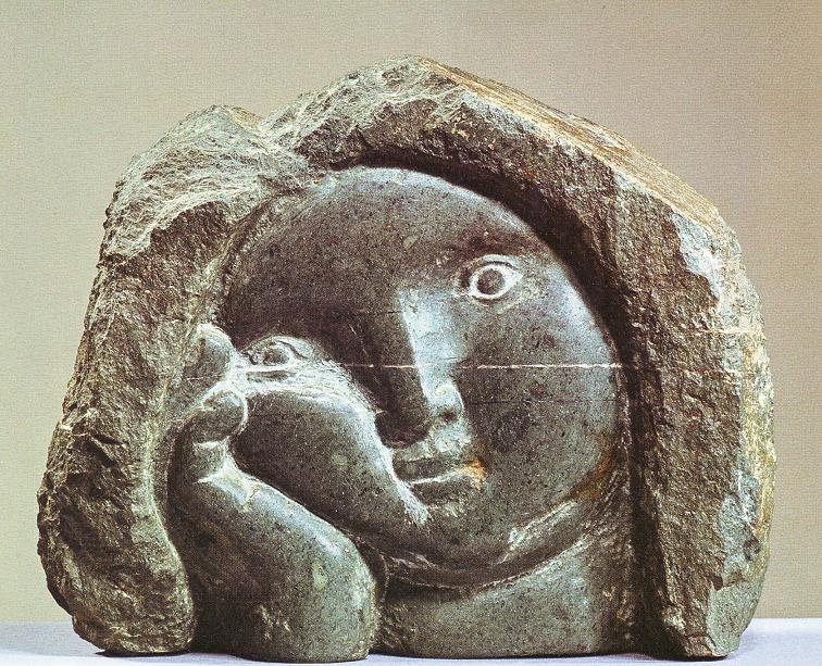 Sculpture „Diabas“, created by the german sculptress Katharina Szelinski-Singer in 1973, stone, 34 x 45 x 14 cm.